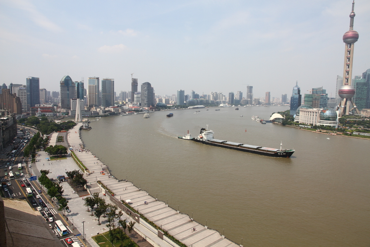 The bund, looking north east as viewed from the custom house bell tower. The custom house is a gvernment building and the bell tower is only open to official visits.